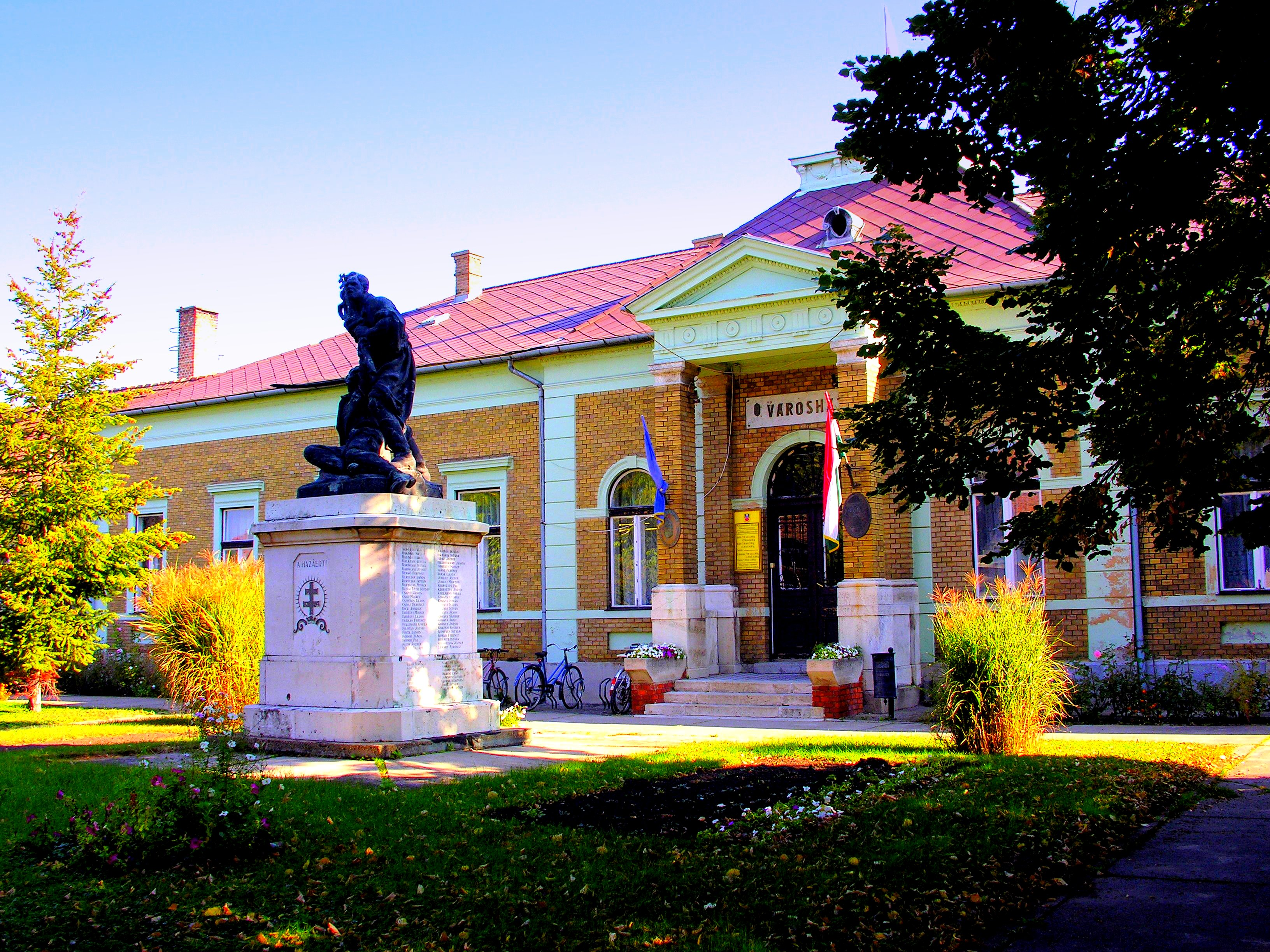 A single storey building constructed many years ago, its frontage graced by a statue of the 'fallen soldier'.